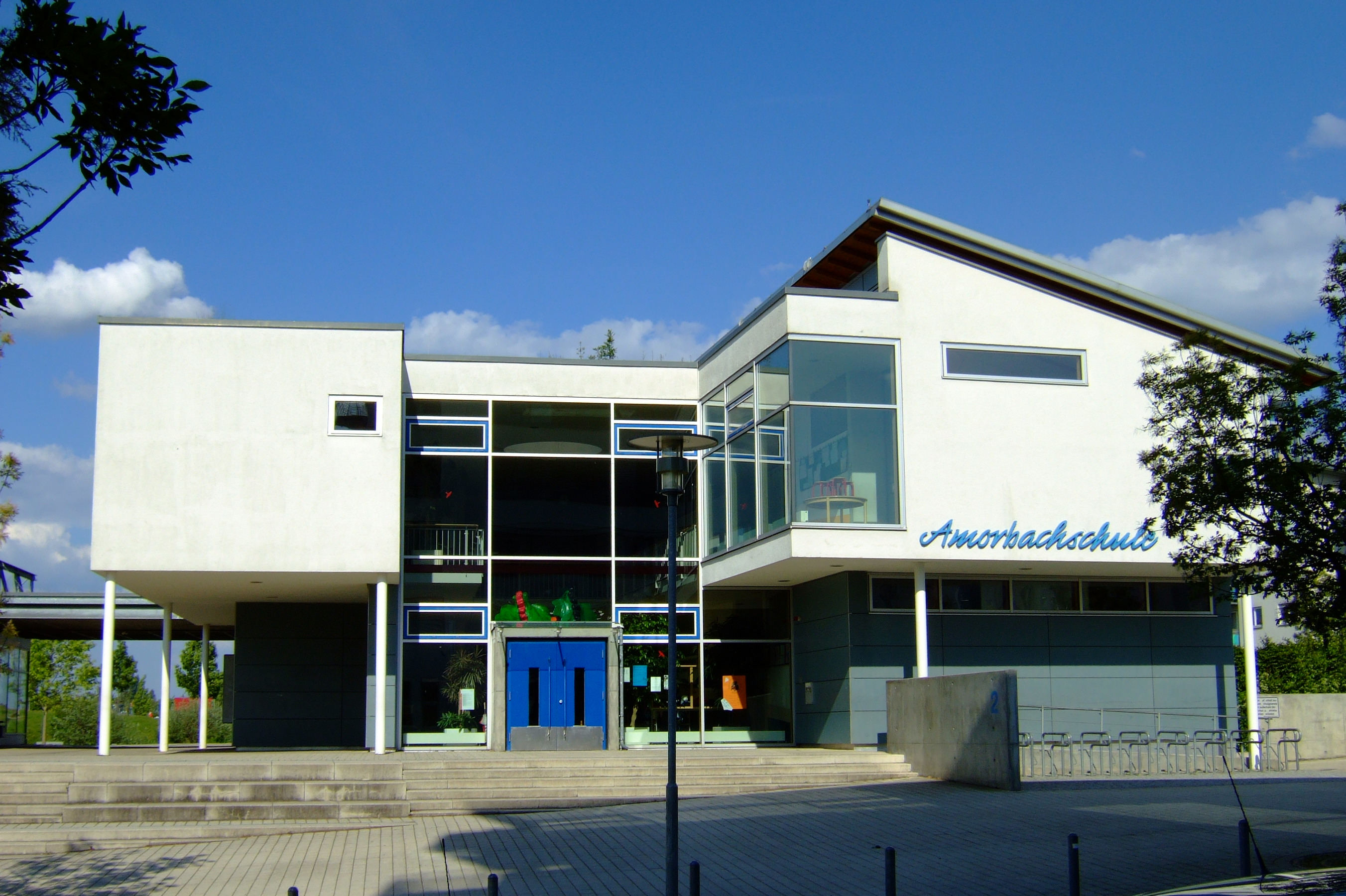 The primary school of Neckarsulm-Amorbach (the part of the town Neckarsulm)